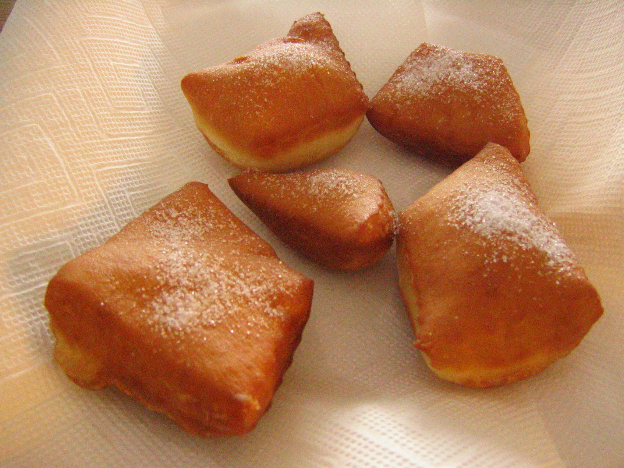 Fasnetküchle - sweet small cake for the carnival, Fastnacht